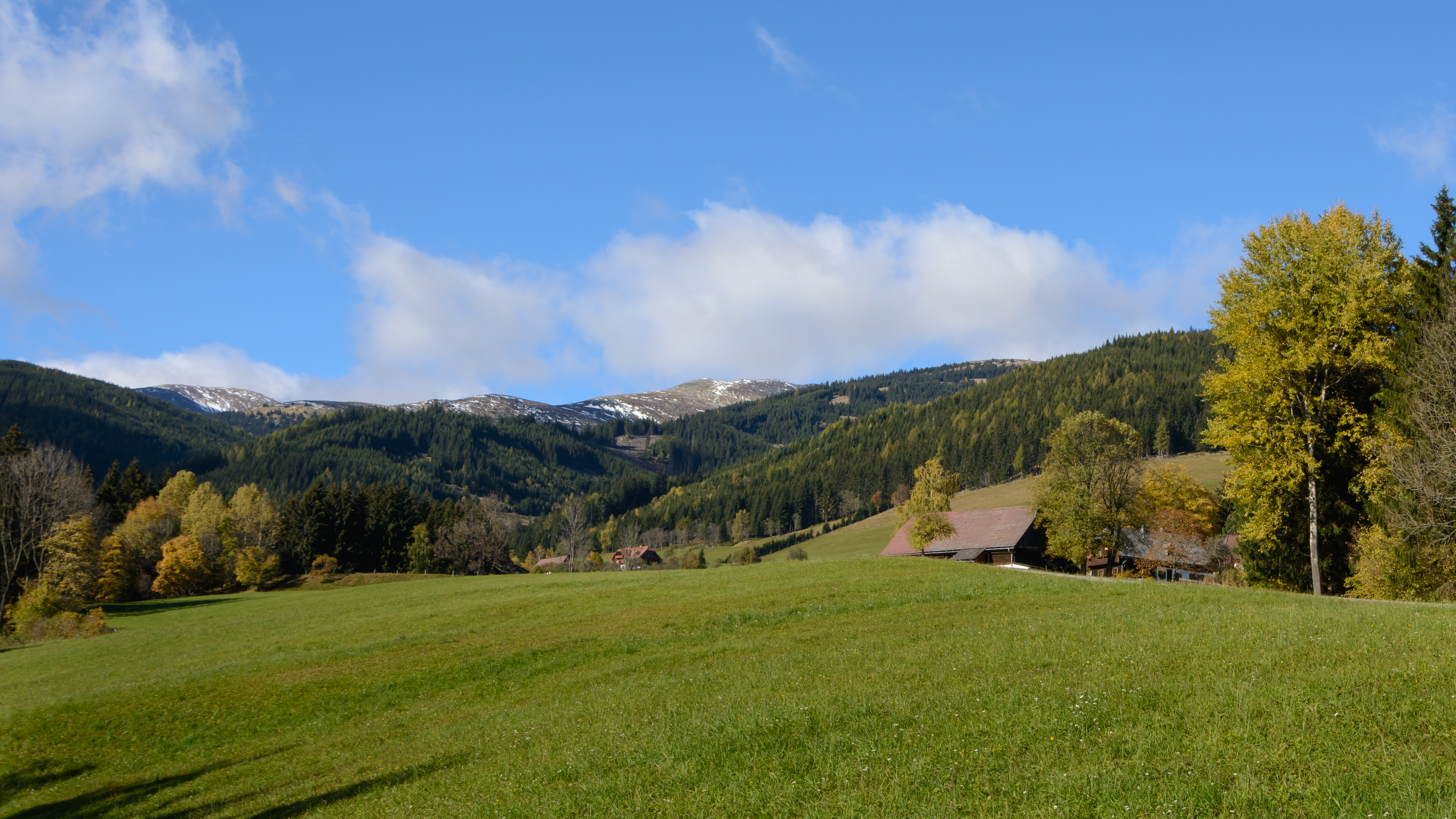 Madlhof (front) and Kühberger (back) farmhouses near Seckau, Styria, Austria